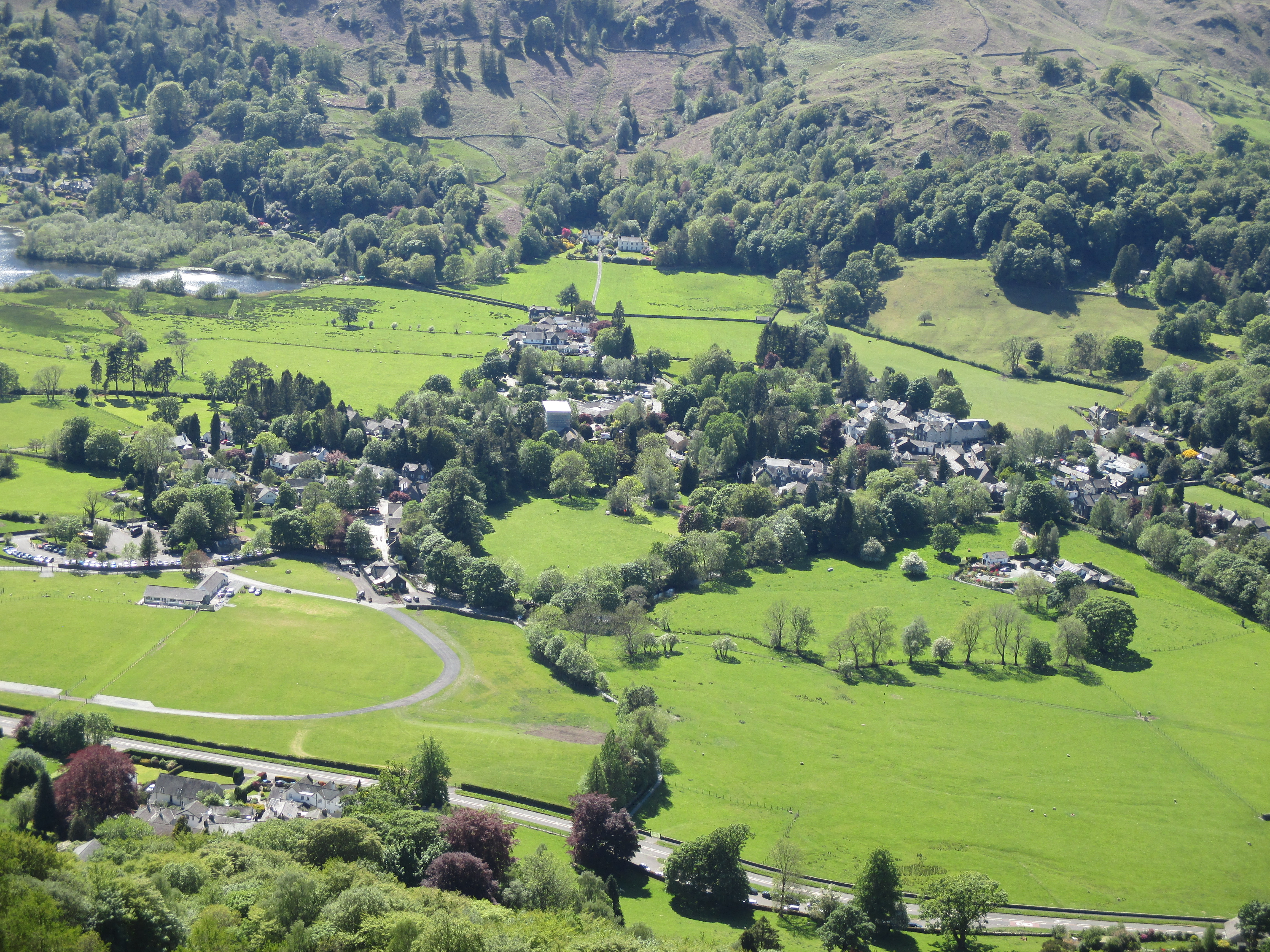 Grasmere village seen from slightly below Alcock Tarn on the western slopes of Heron Pike